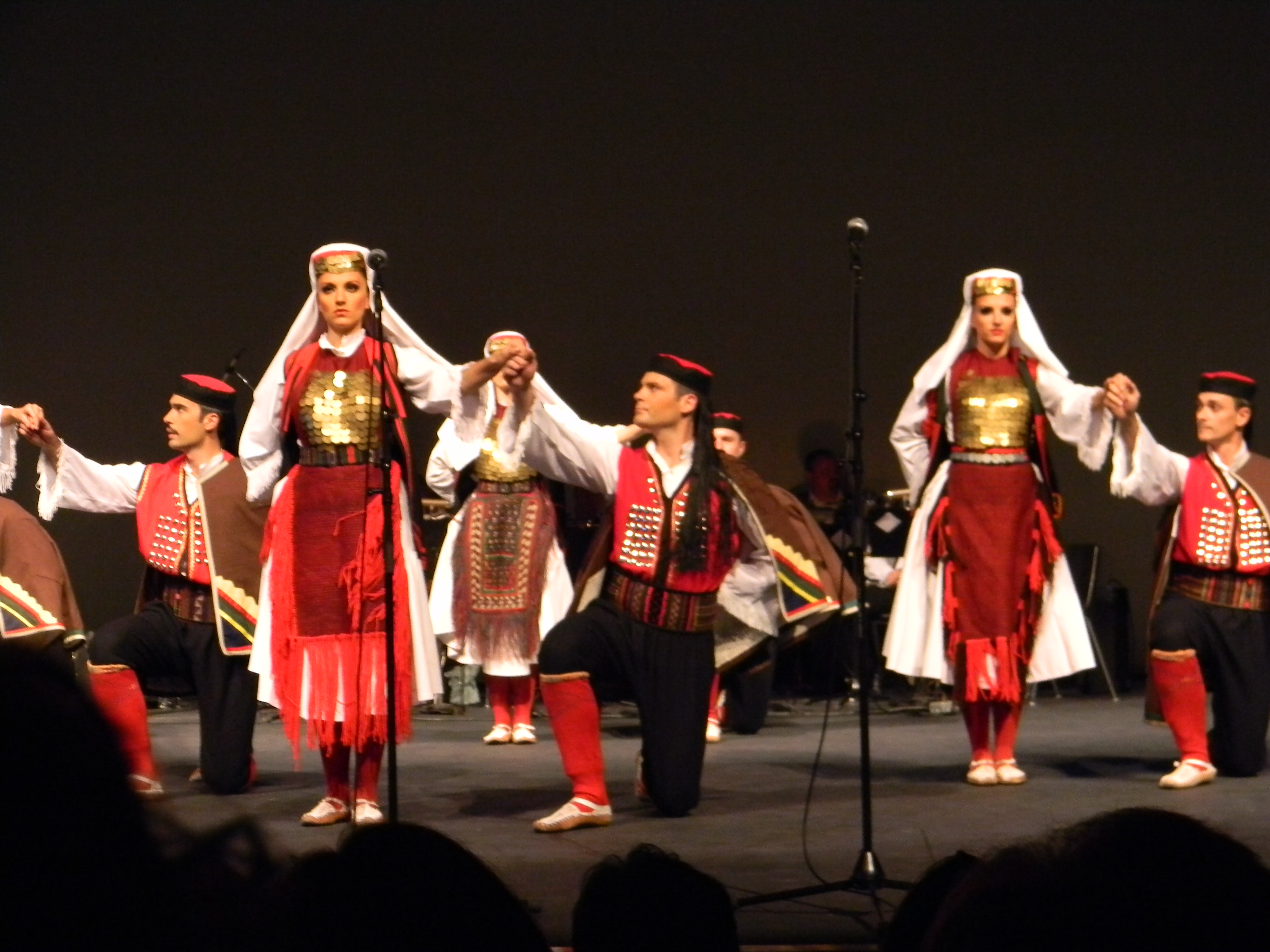 The Serbian National Folk Dance Ensemble Kolo presents Old Silent dance from Glamoch. Hamilton, Canada - 2011. Choreographer Olga Skovran